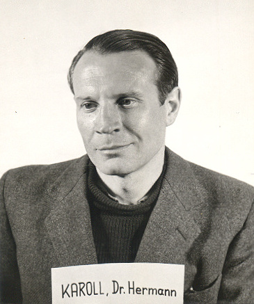 Hermann Karoli as a witness during the Nuremberg Trials